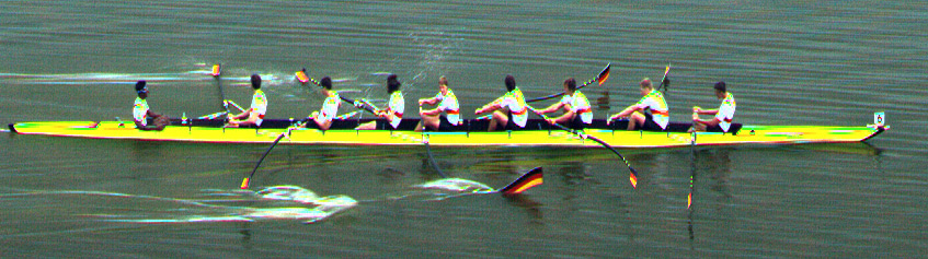 Fotofinish example (Scan'O'Vision method). It shows the German national junior rowing team during 2005 World Rowing Junior Championships in Brandenburg an der Havel, Germany. The bent paddles can be seen very well.